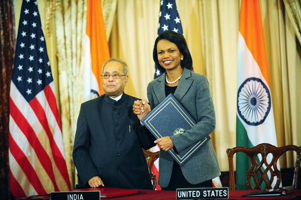 Secretary Condoleezza Rice and Indian Foreign Minister Pranab Mukherjee, sign the US-India Civilian Nuclear Cooperation Agreement.